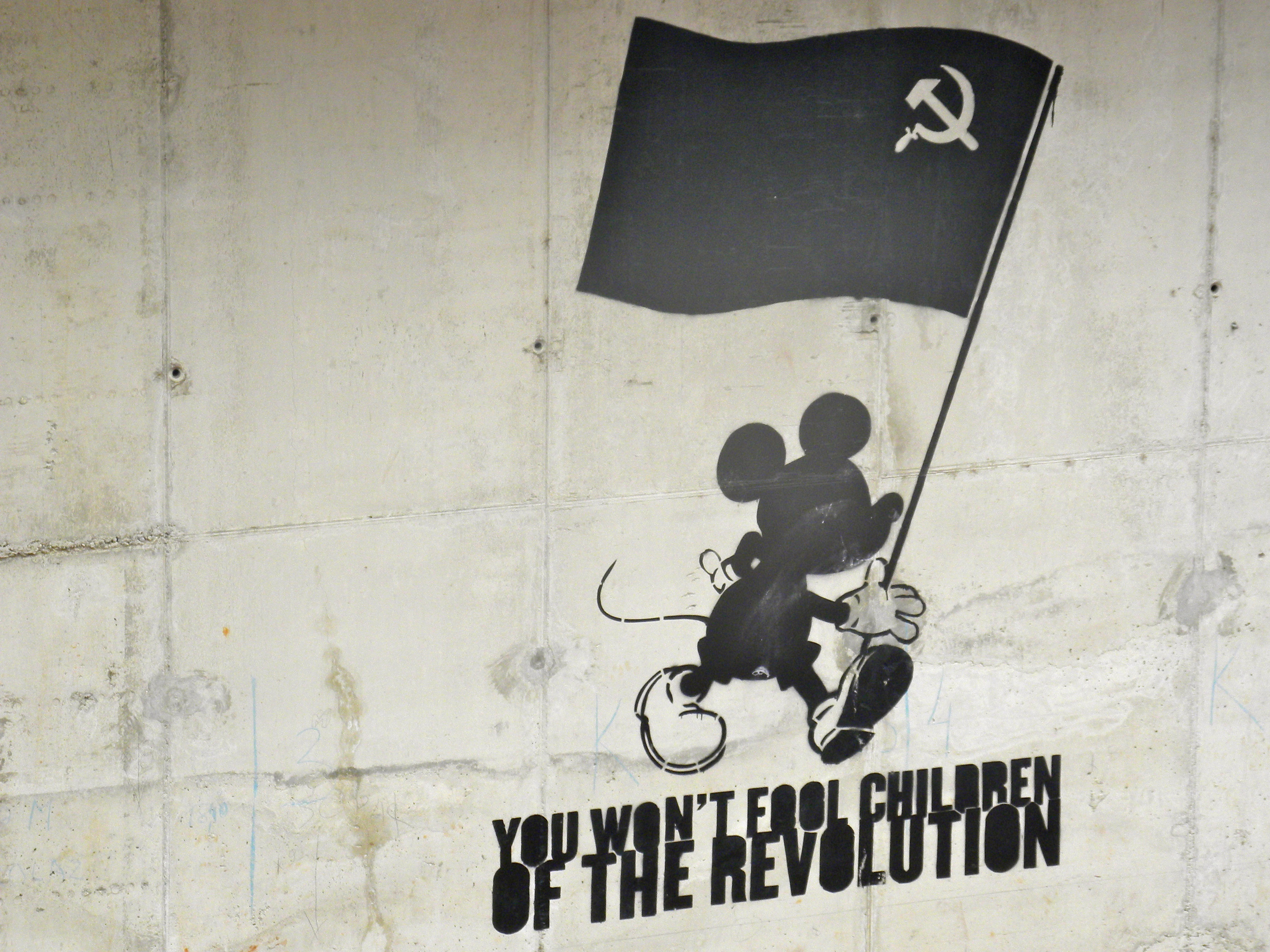 Graffiti outside the Zagreb Museum of Contemporary Art.